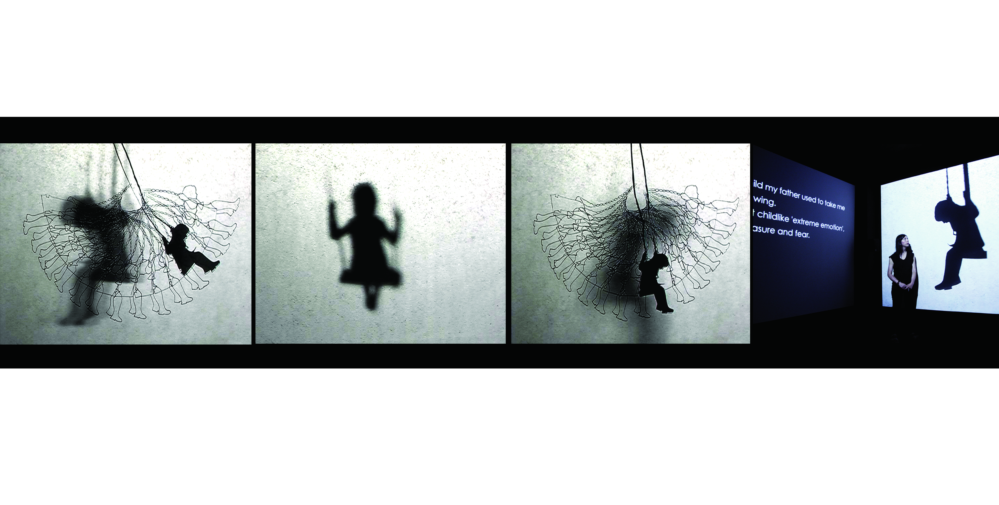 Sensation Seekers 2009 - Vénera Kastrati - Venice Biennale